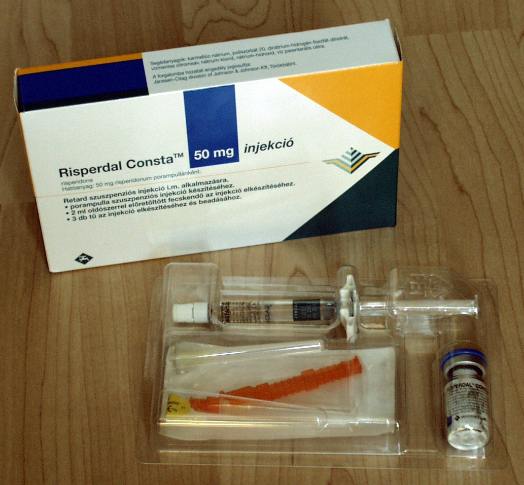 Risperdal Consta injection syringe